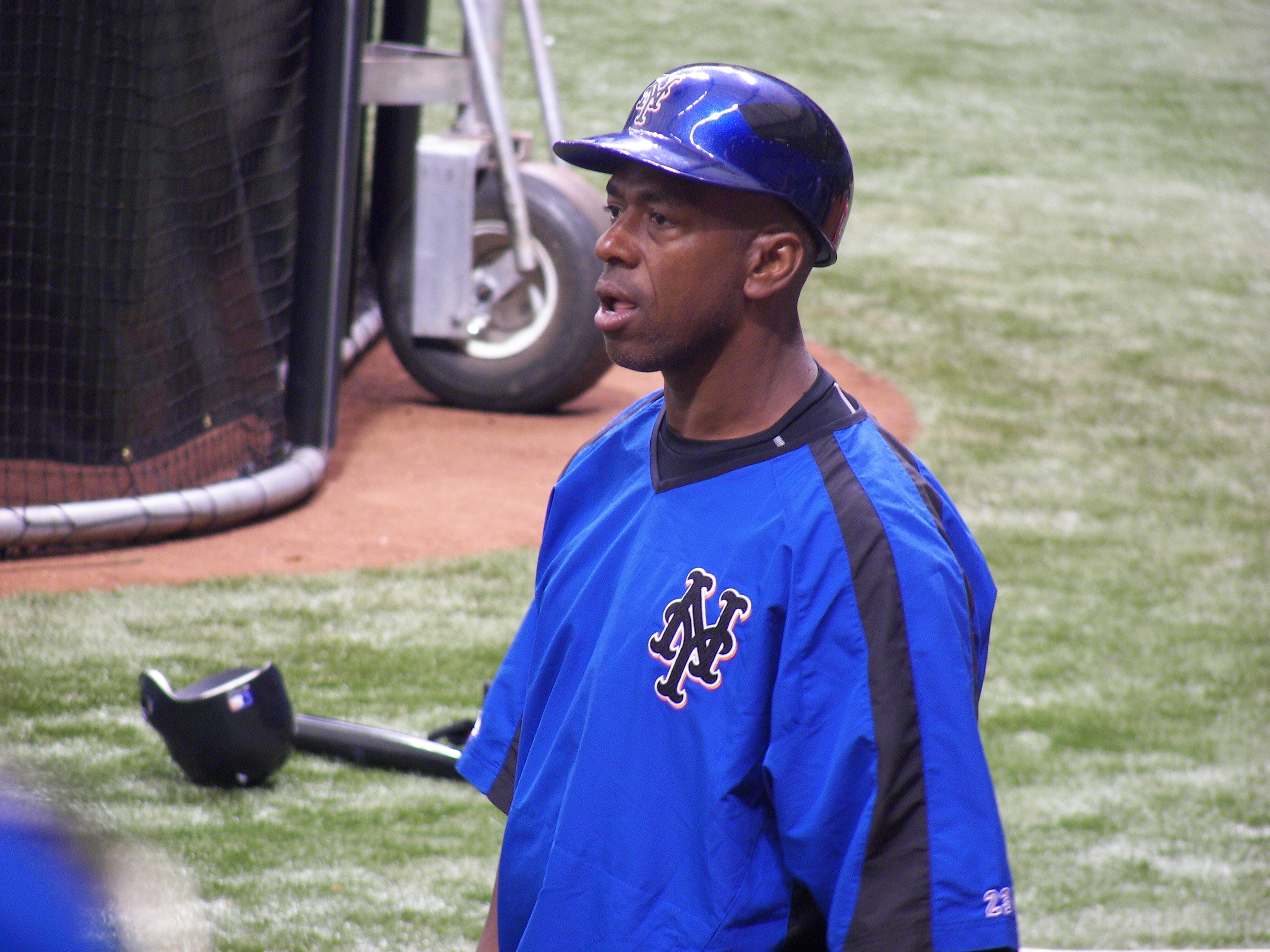 New York Mets first baseman Julio Franco before a Mets/Devil Rays spring training game at Tropicana Field in St. Petersburg, Florida.